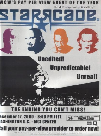 The Final Chapter of WcW Starrcade is here.